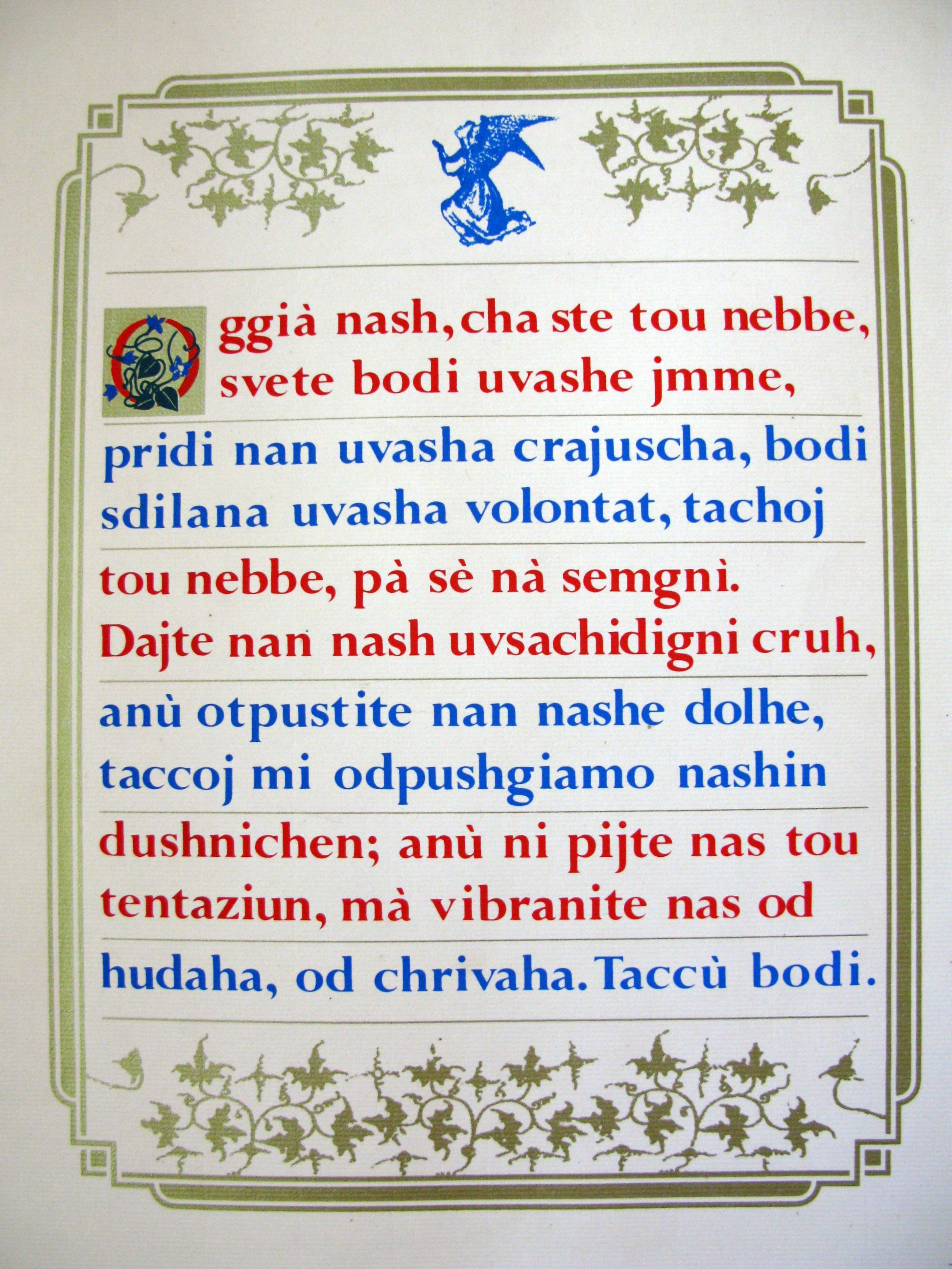 Pater Noster in the old Resian language (copy in the Church of Prato di Resia). Resia valley is a tributary valley of Canal del Ferro / Friuli-Venezia Giulia / Italy / EU.